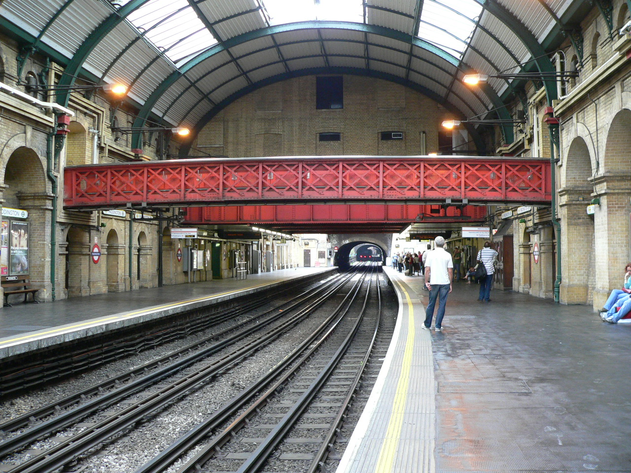 The Circleand District Line platforms of Paddington London Underground station. This photograph is taken from the inner rail (anti-clockwise) platform, looking north-east from the south-west end.